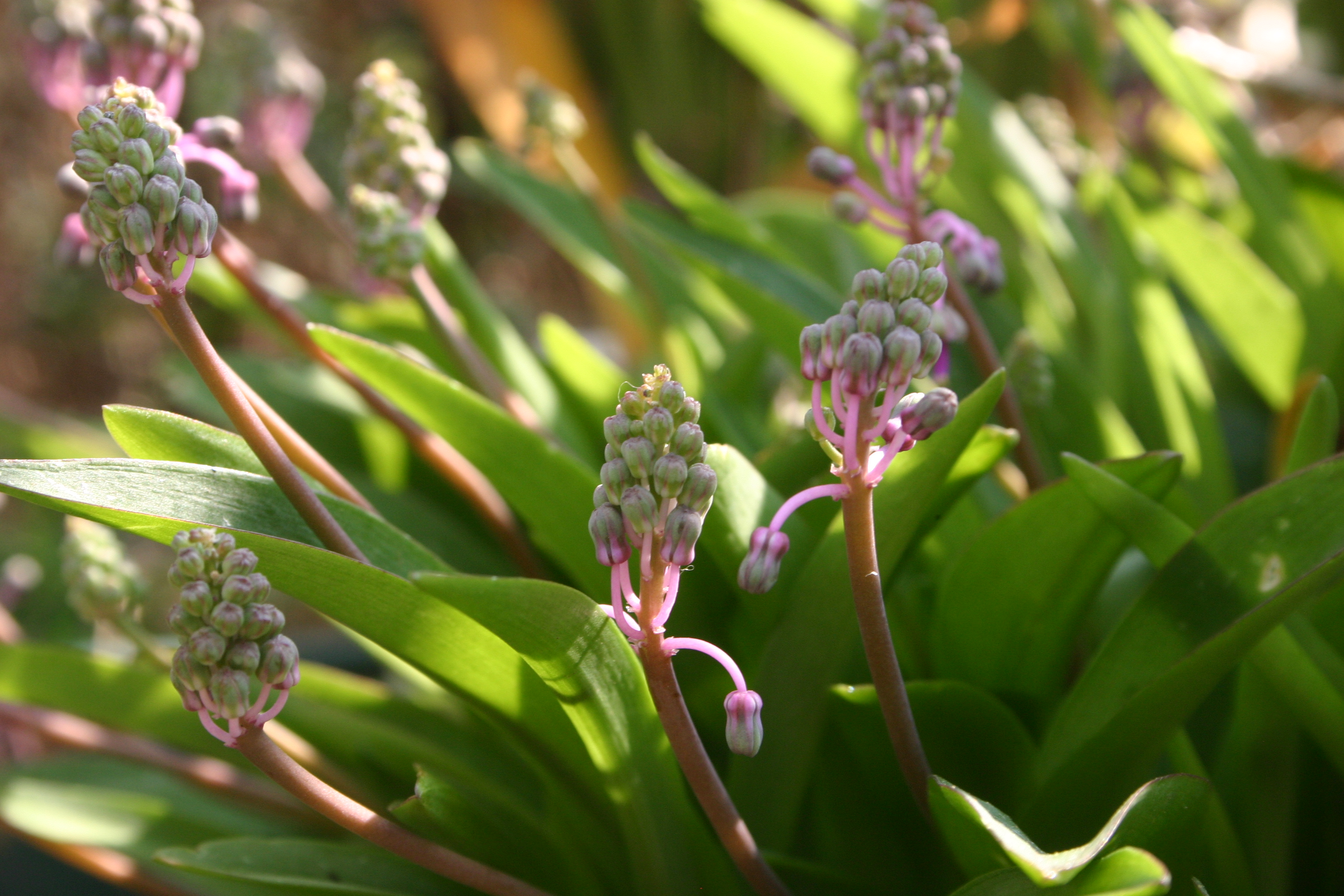 Inflorescences of Ledebouria minima (Baker) S.Venter - cultivated at Chucklenook, Johannesburg